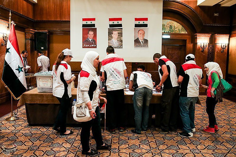 Inside some Damascus polling stations as Syria votes.